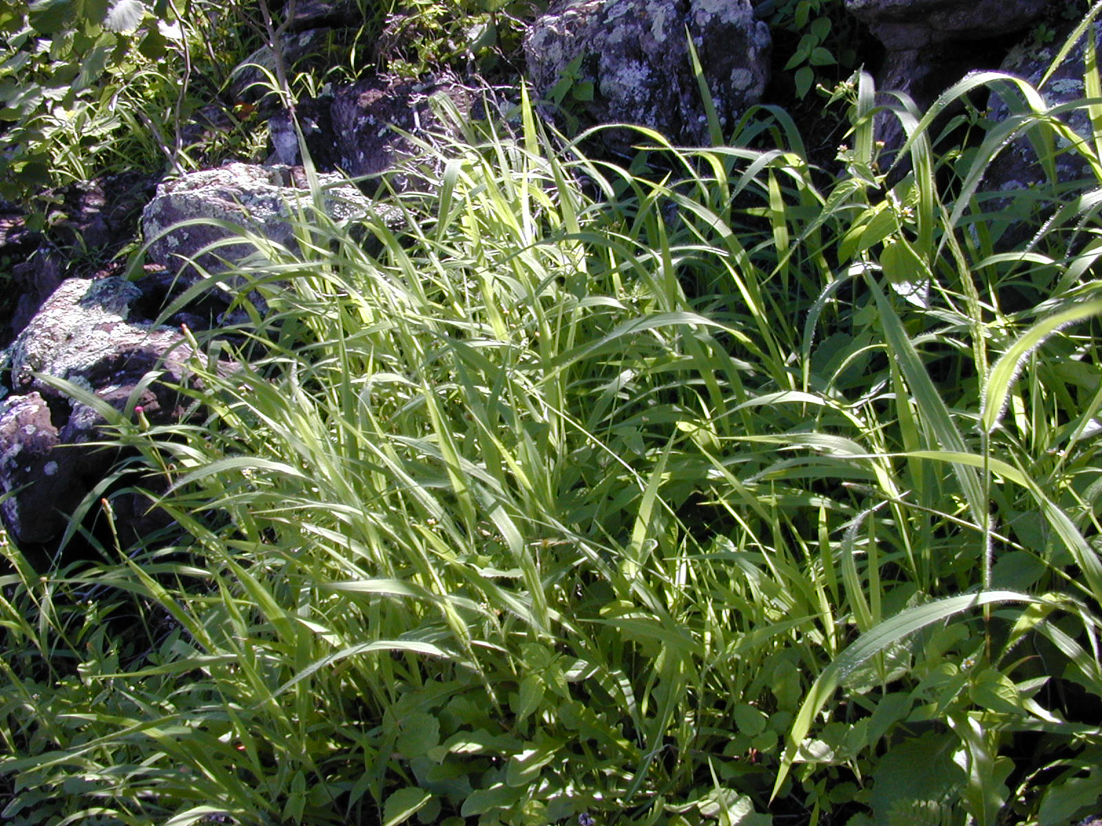 Panicum xerophilum (habit). Location: Maui, NHPS Hibiscus brackenridgei excl Waikapu